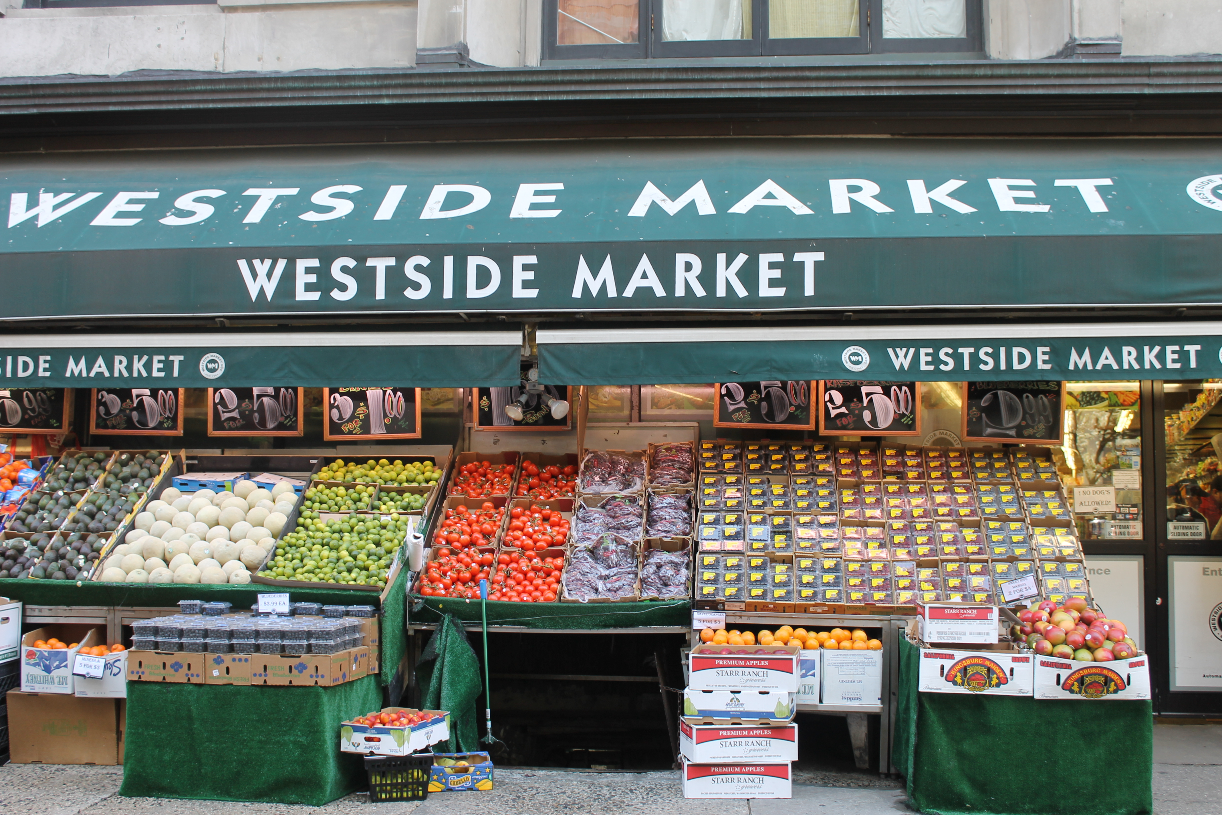 Westside Market on the Upper West Side of Manhattan displays fresh produce at the sidewalk.